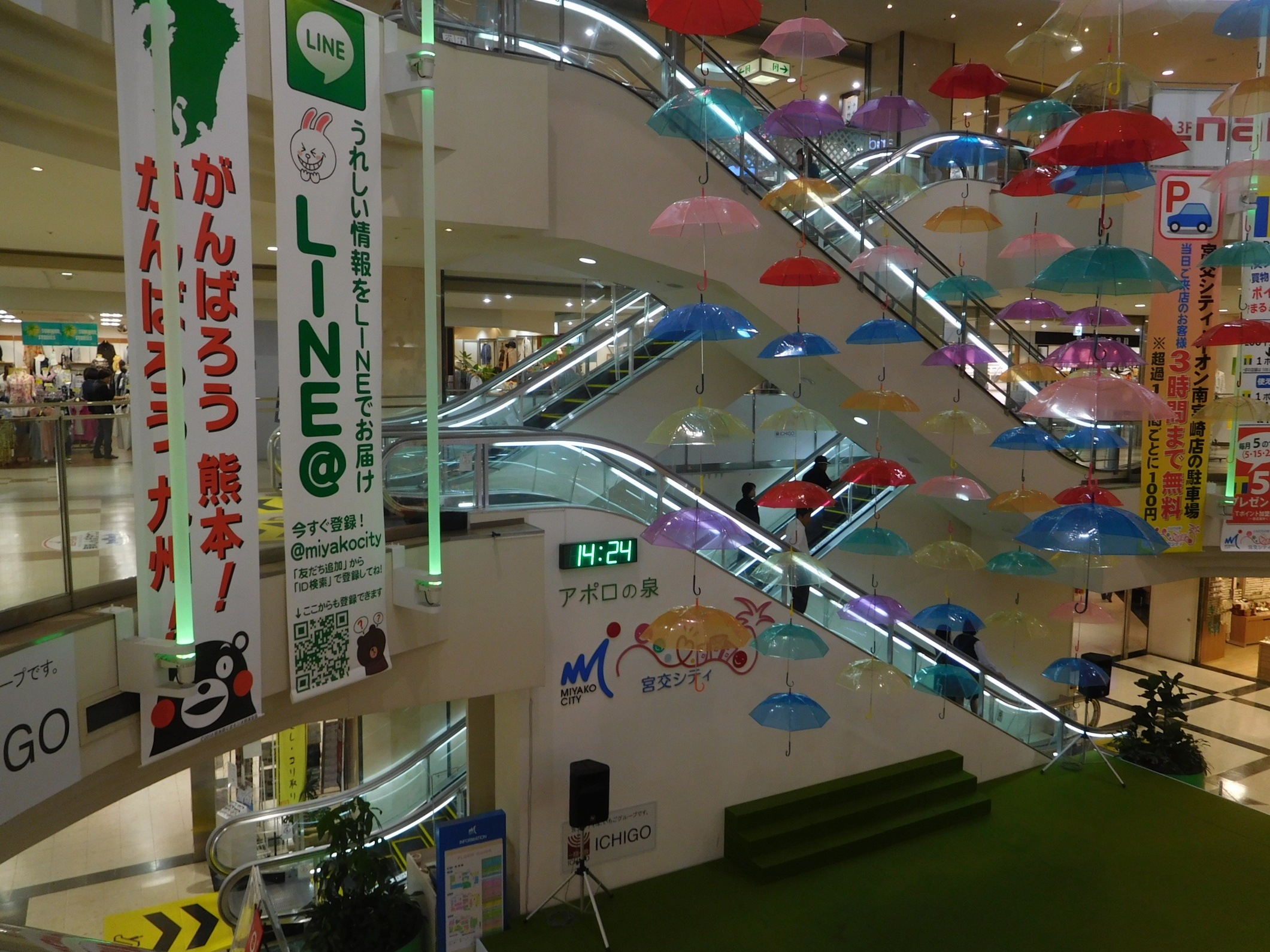 Spiring of Apollo at "Miyako City" (Miyazaki City, Japan)